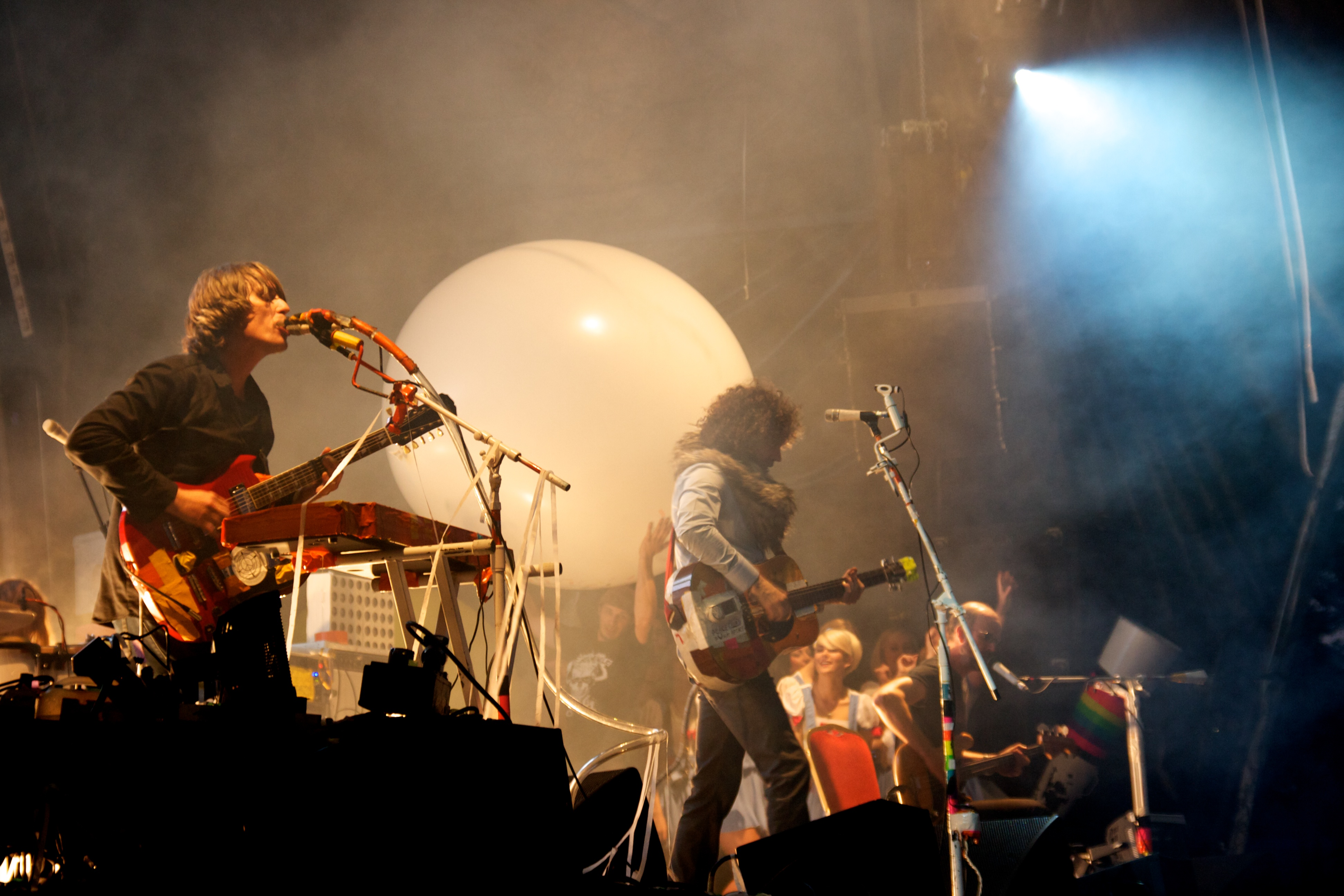 The Flaming Lips performing at Jodrell Bank Live at Jodrell Bank Observatory